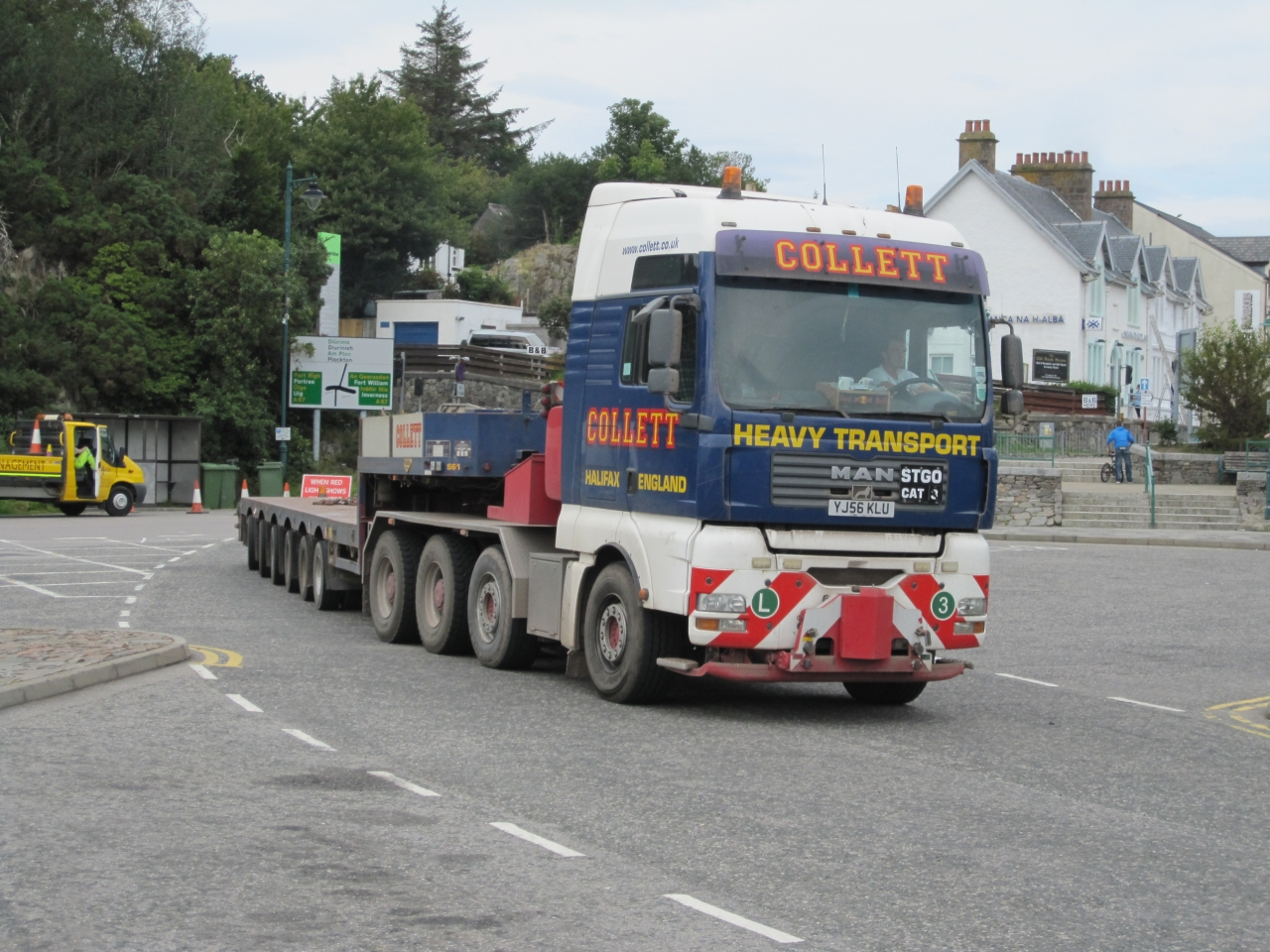 Collett MAN heading to Kyle harbour to be loaded with wind turbine parts destined for Skye.